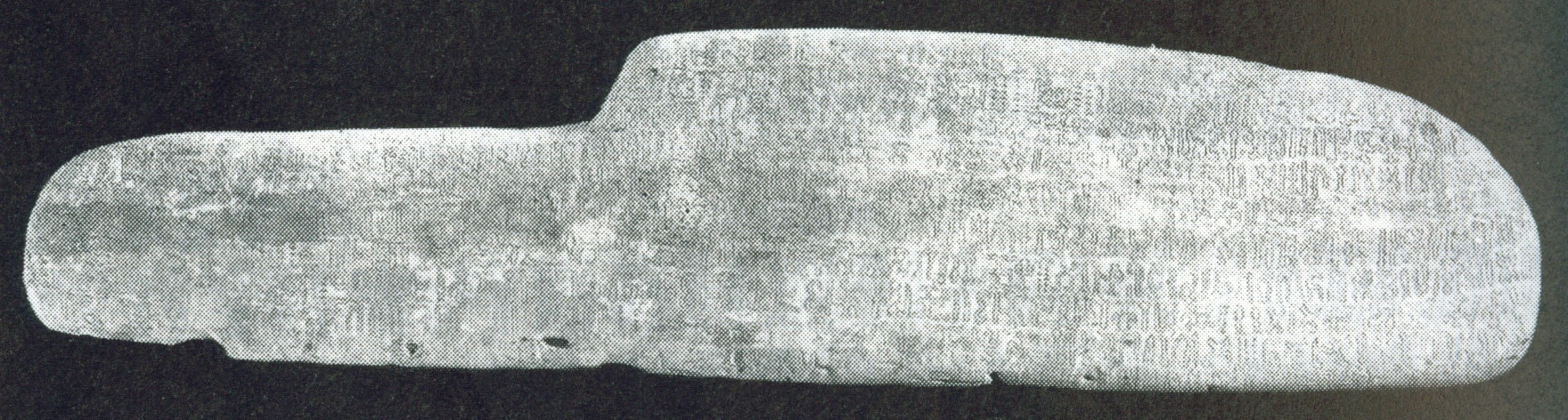 One of 26 rongorongo tablets that may be authentic.